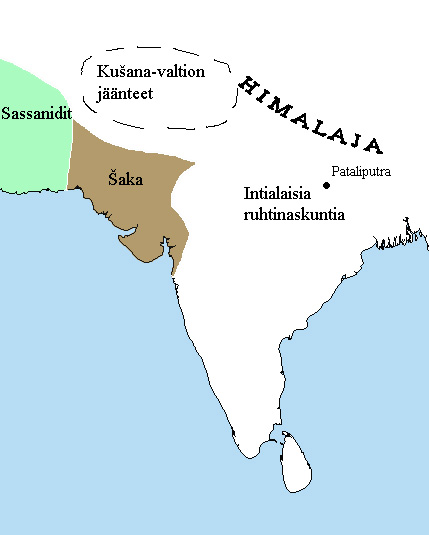 Approximate political situation in India in 300 AC. Text in finnish.